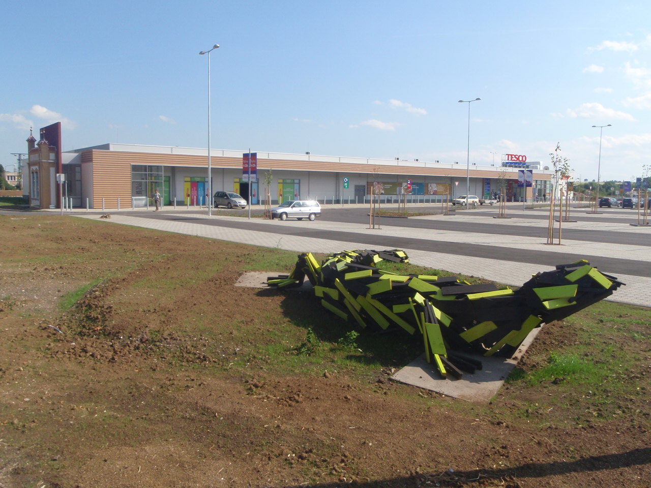 Tesco Hipermarket Kőszeg with Statue of living here Fire Salamander. The old building on the left side of the wall sections can be reconstructed behind posztógyár preserving the memory of past local textile museum.